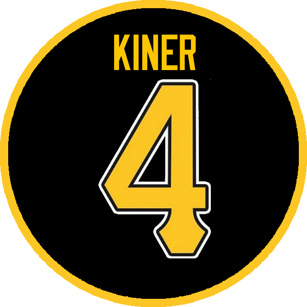 Illustration of Pittsburgh Pirates retired number